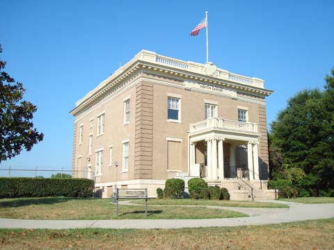 Chimborazo, the Civil War Medical Museum at Richmond National Battlefield Park, Richmond, Virginia, USA